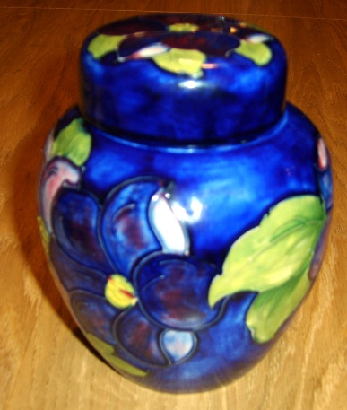 An example of a Moorcroft ginger jar, with 'peony' design.